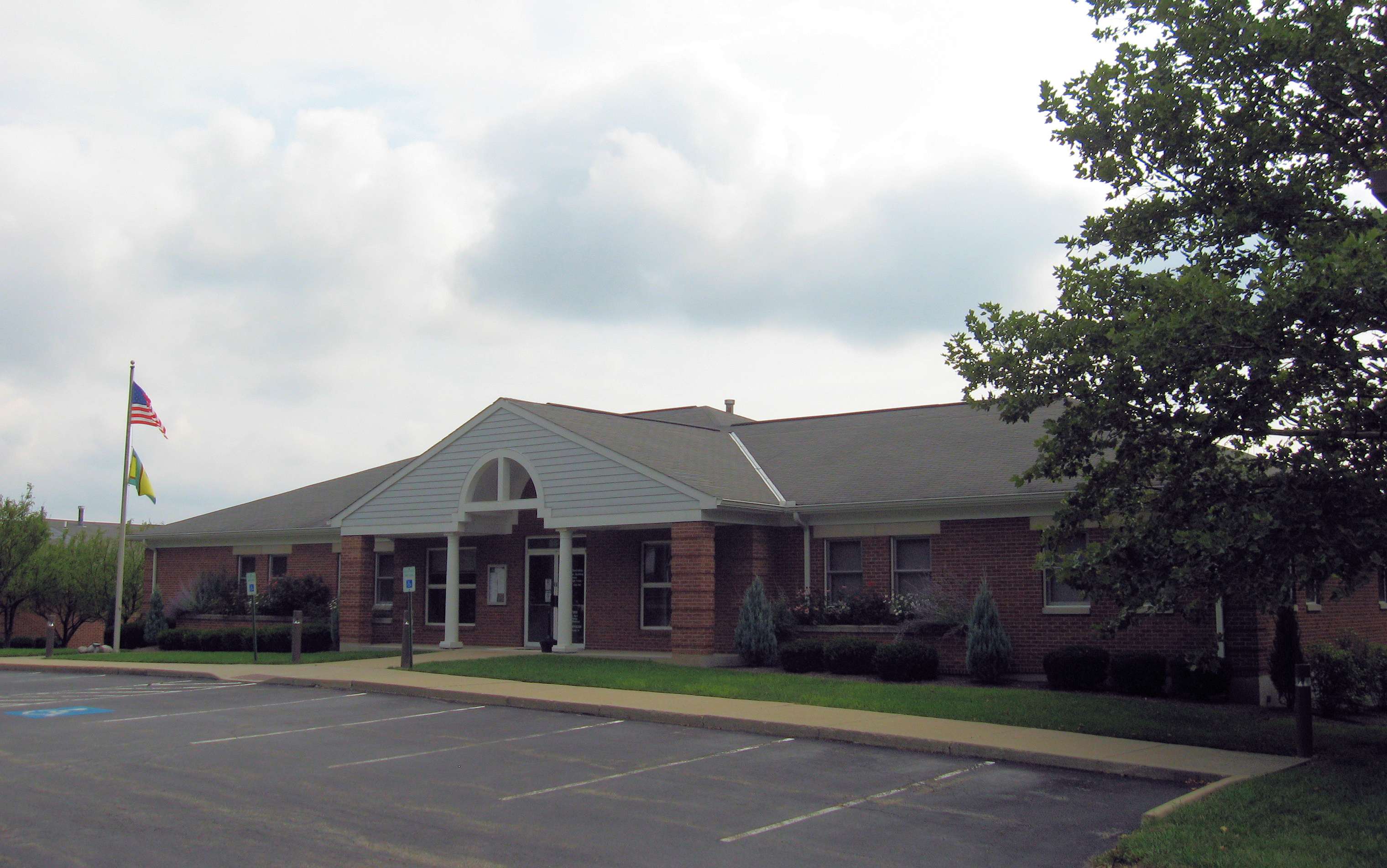 The Sycamore Township government building in Kenwood, near (but not within) Blue Ash, USA.